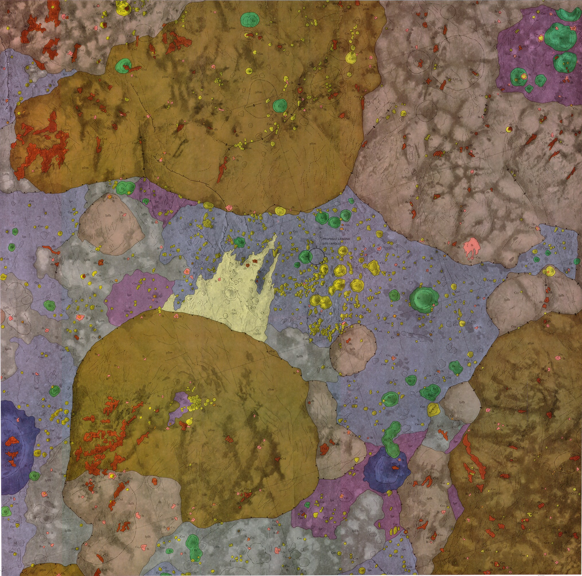 Geologic map of Taurus-Littrow on the moon. Colors are marked by letters as well. Key: Very dark mantle material Light mantle material Dark mantle material Plains material Hills material Terra massif material Crater material Crater material Cvd=very dark mantle material, Cb=light mantle material, Gray=dark mantle material, Ipr/Ips=Plains material, IpIh=hilly material, pItm=terra massif material, Cc series/Ec/Ic=crater material